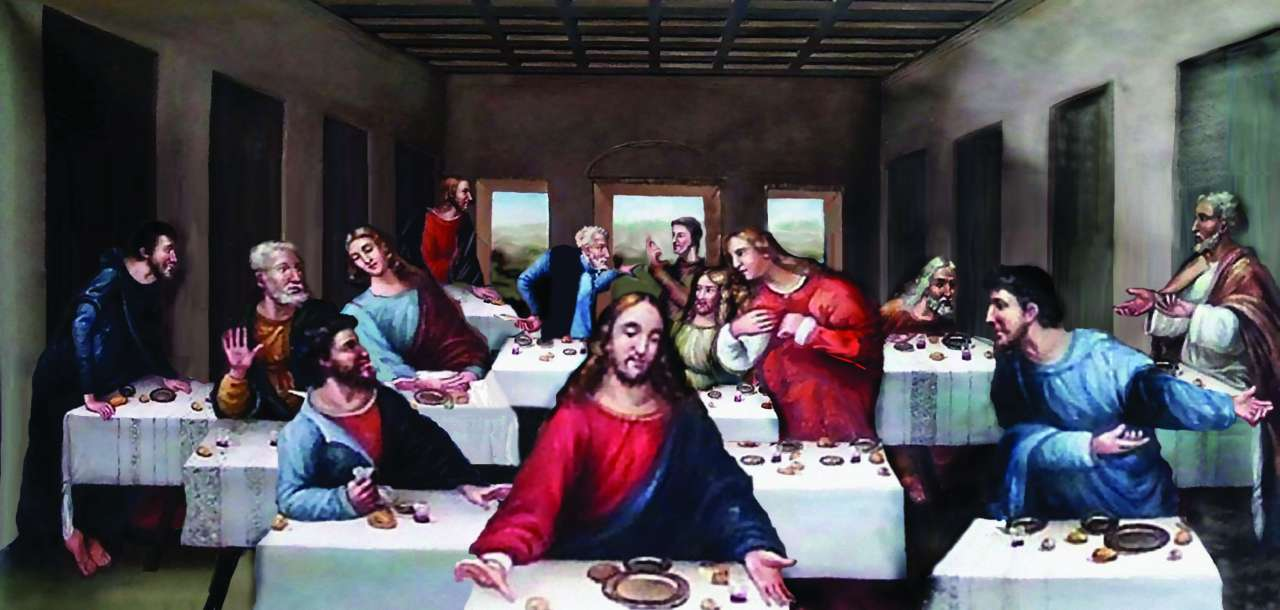 1st prize awarded on the "ARC" Giantposter Exhibition, Budapest, 2006